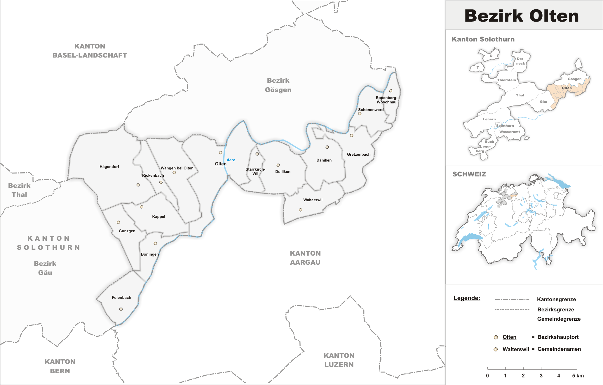 Municipalities in the district of Olten